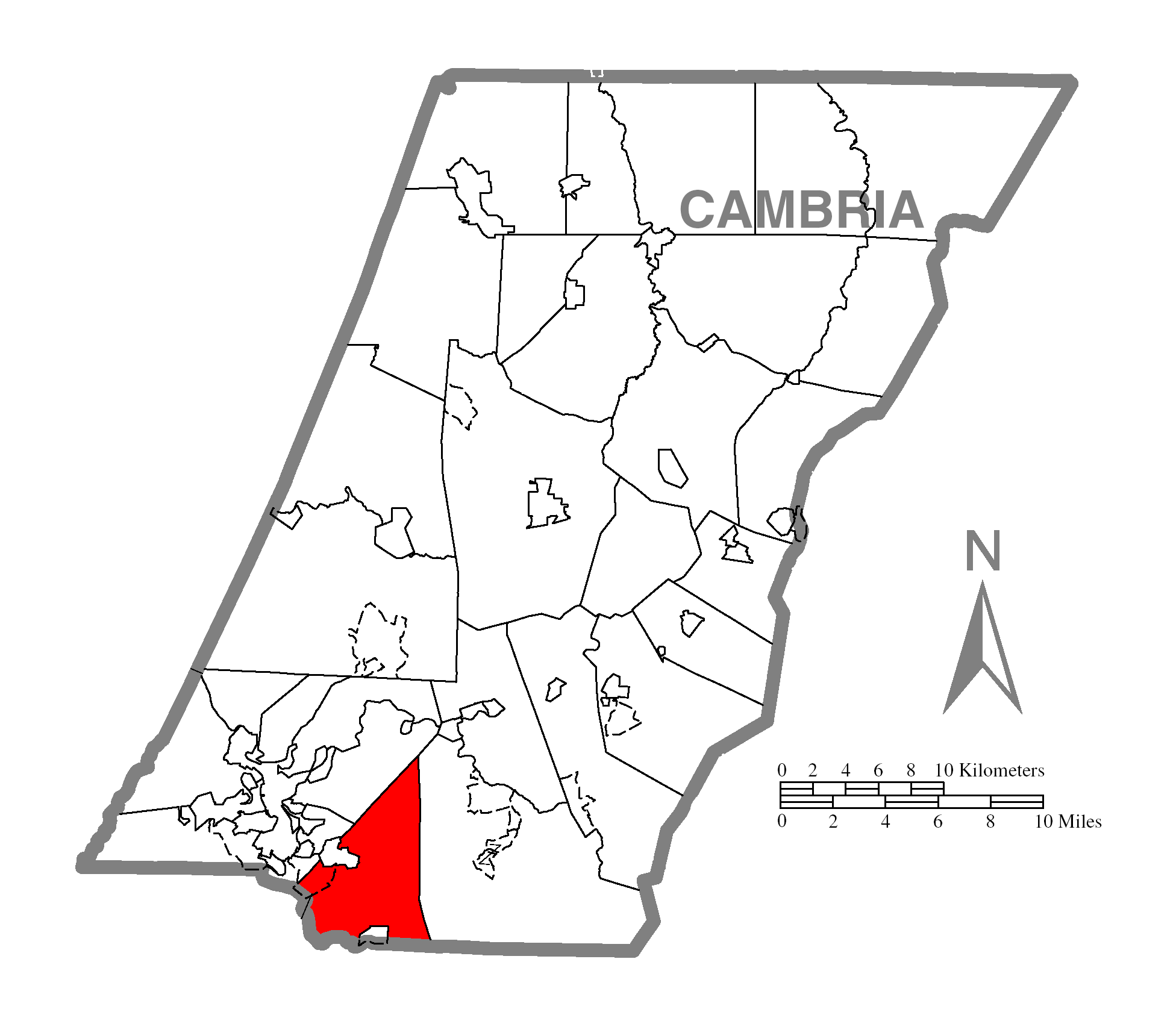 A map of Cambria County showing Richland Township, Pennsylvania (alternate) highlighted on the map.